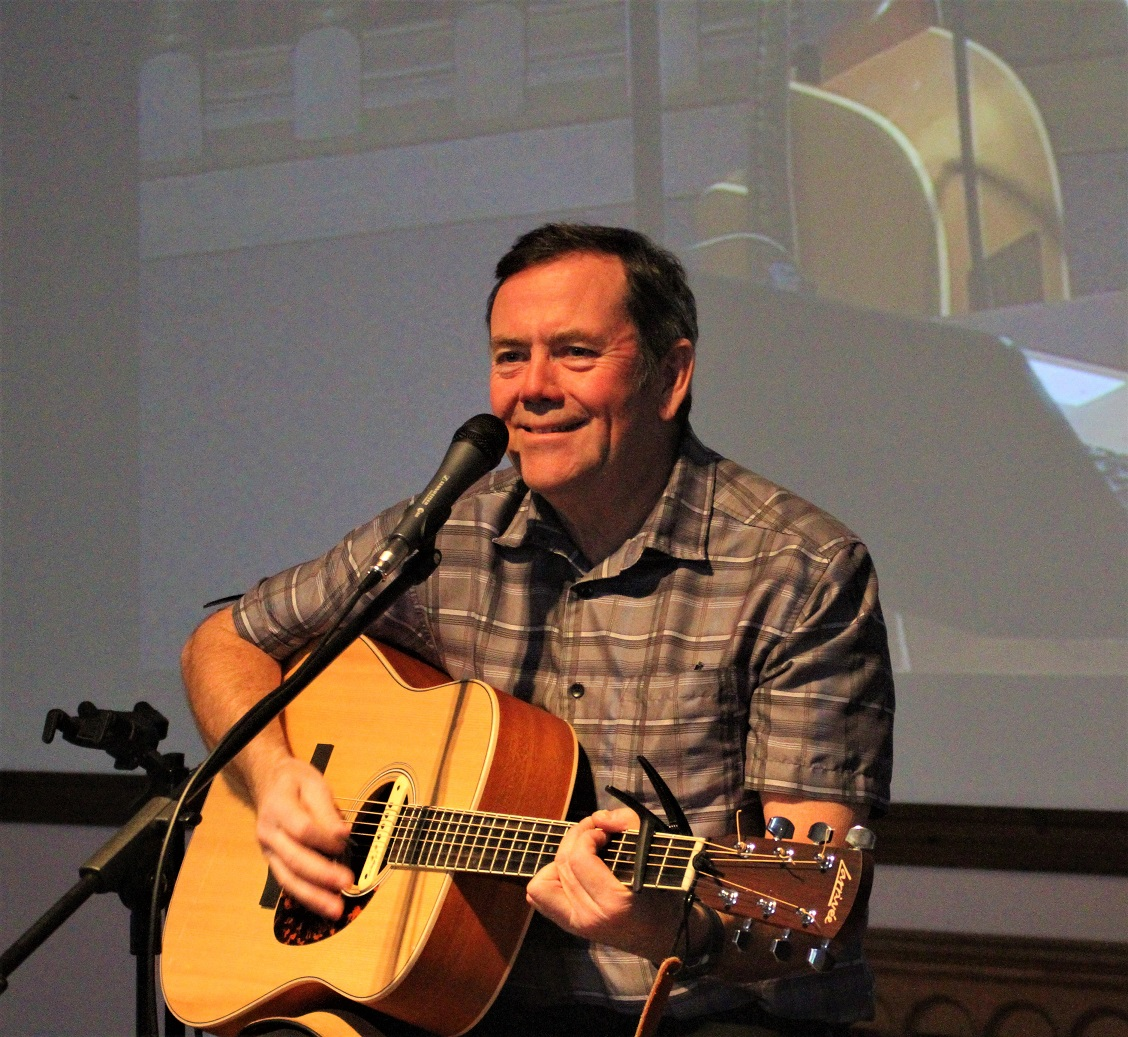 Photo of Dave presenting photos that introduce his songs, as part of his Songs, Slides and Stories concert series.